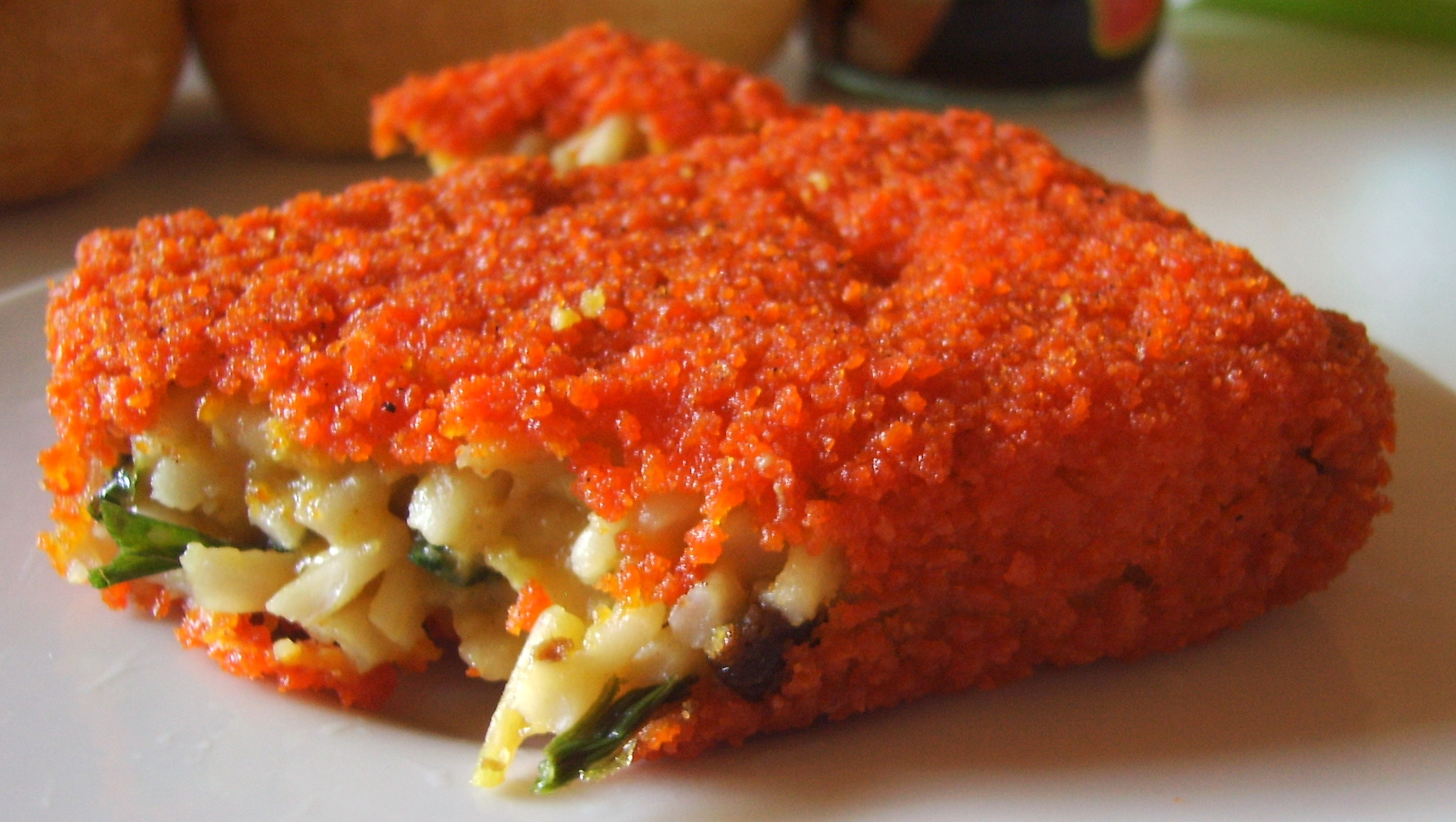 Bamihap: deep-fried Dutch snack of Bami Goreng in a crust